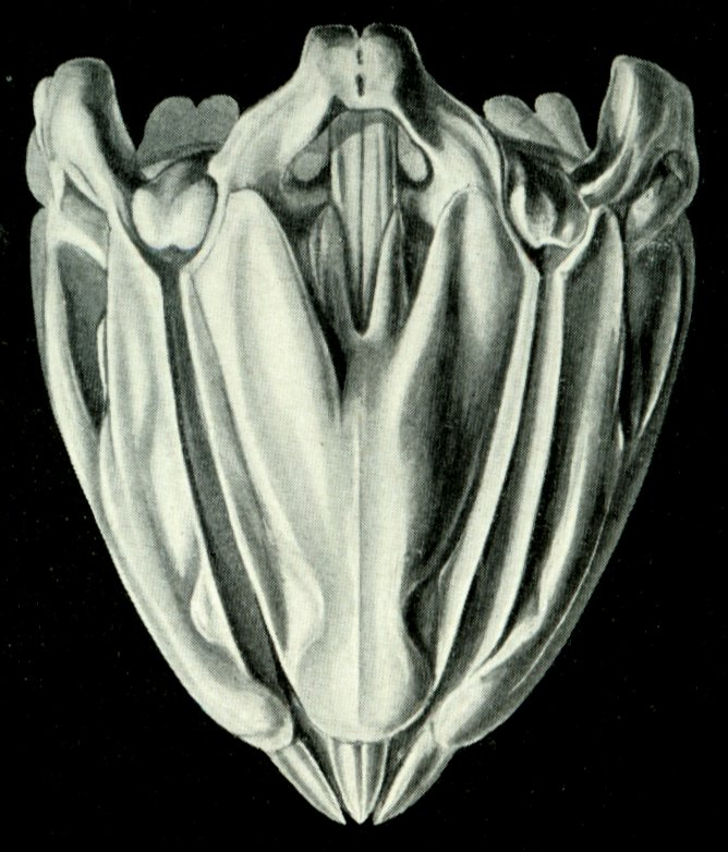 Aristotle's lantern of Sphaerechinus granularis in its upright position